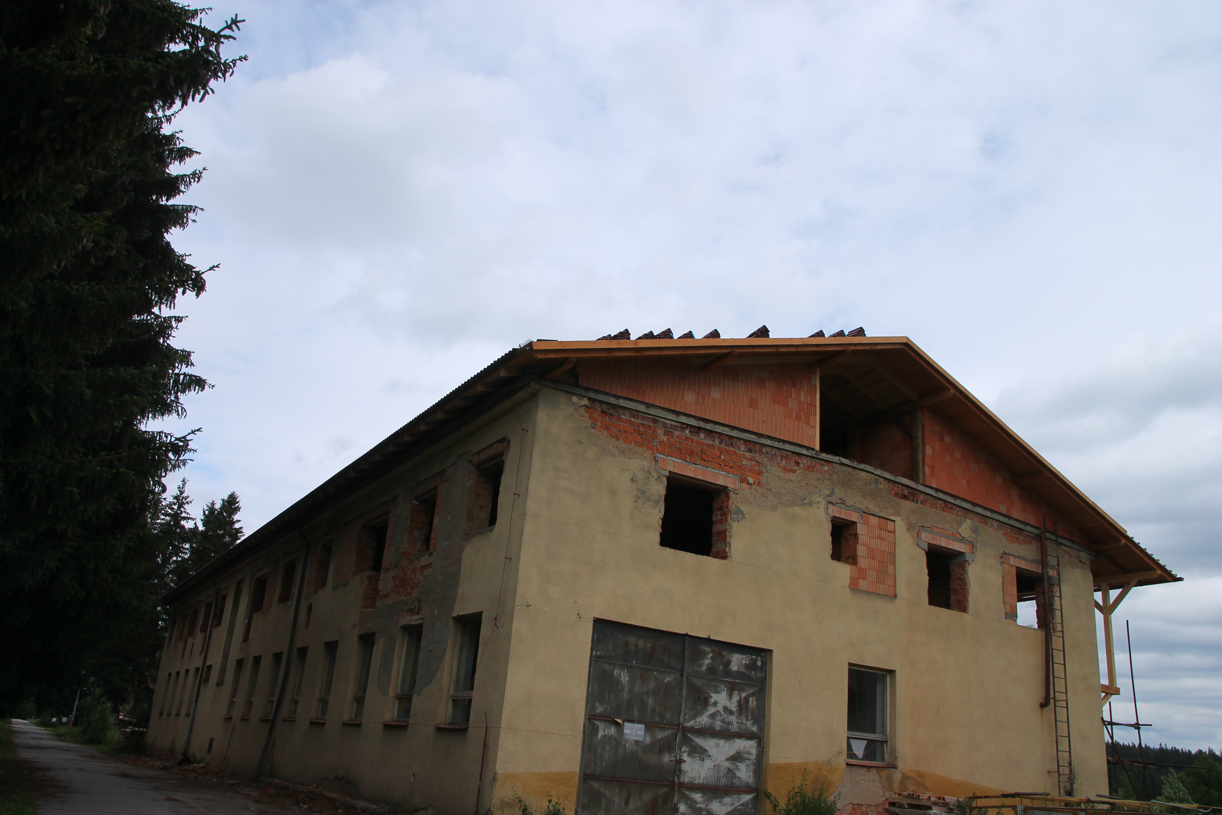 Former barracks „U Sloupů“ in Vimperk, reconstruction of ruins